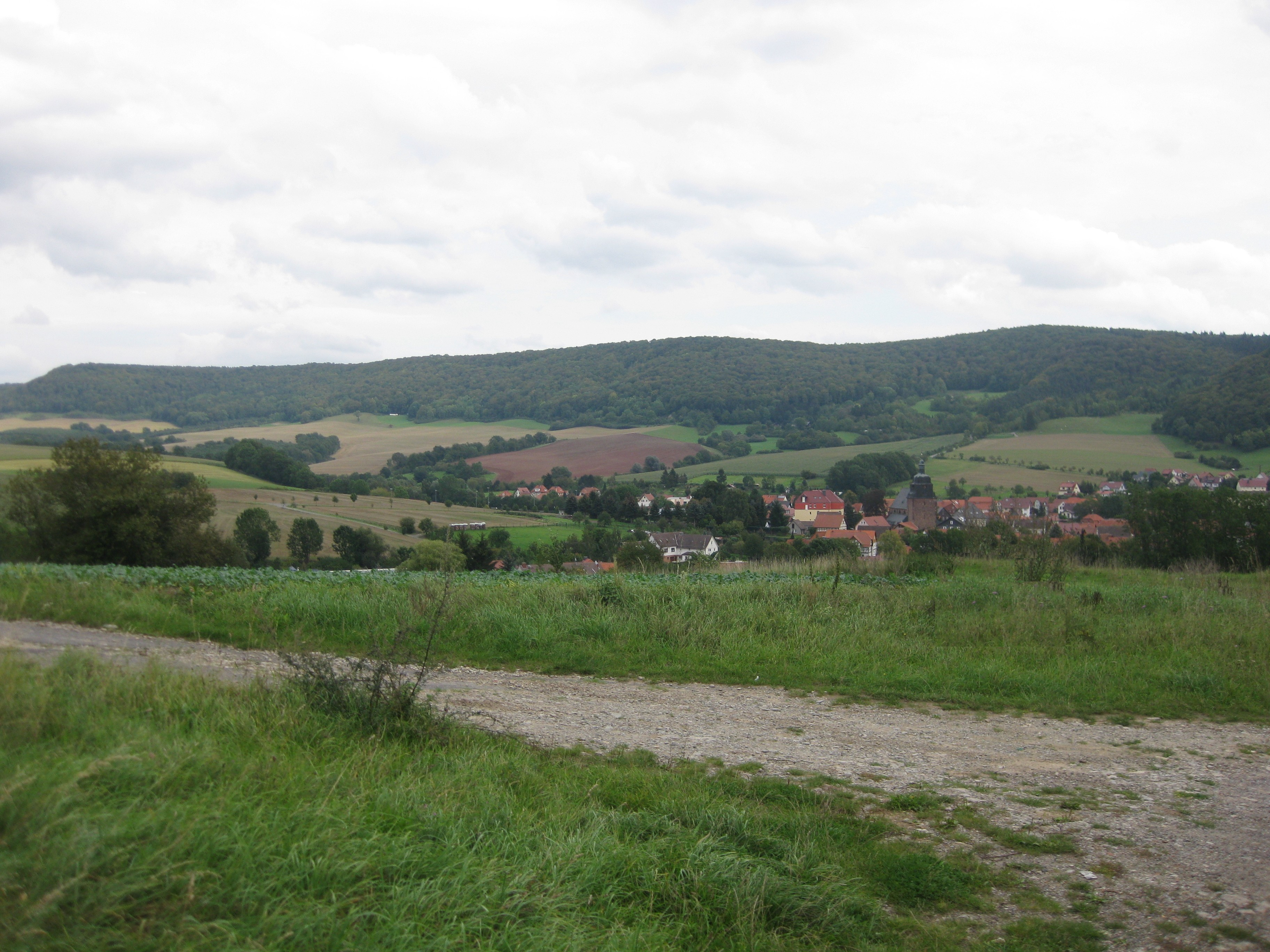 Ershausen